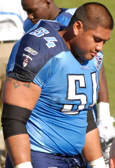 Tennessee Titans offensive lineman Eugene Amano on the sidelines during the November 2, 2008 game against the Packers at LP Field.